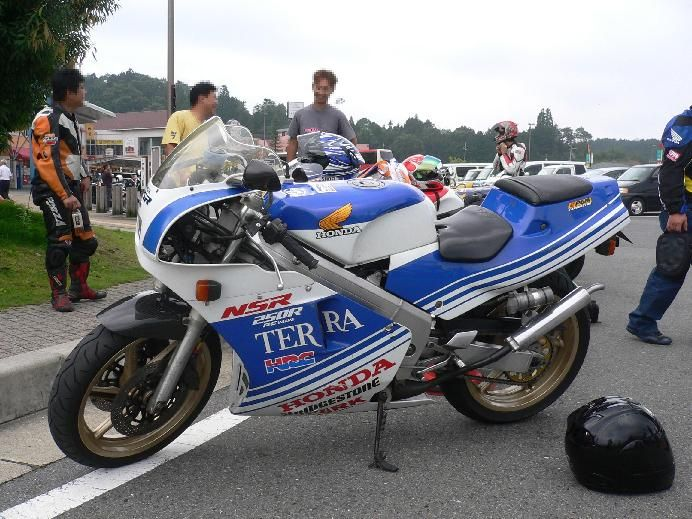 1988 Honda NSR250R 2nd generation